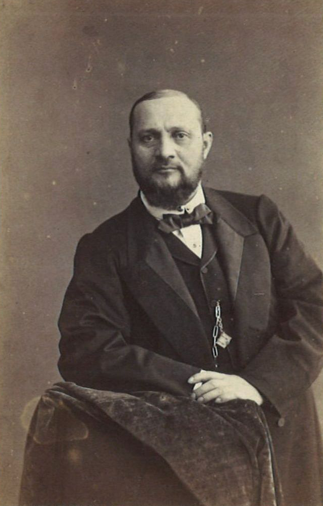 The Italian (or possibly Romanian) tenor Enrico Tamberlick (sometimes spelt Tamberlik or Tamberlinck) was born on 16 March 1820. He made his début at Rome in December 1837, and performed at Covent Garden regularly from 1850 to 1864, and then again in 1870. One of the first tenors to reach a high ‘C’, he also appeared in New York, Paris, Madrid and St. Petersburg. He interpreted the operas of Berlioz, Rossini and Verdi; on 10 November 1862 in St. Petersburg he created the role of Don Alvaro in Verdi’s La forza del destino. Enrico Tamberlick died on 13 March 1889.